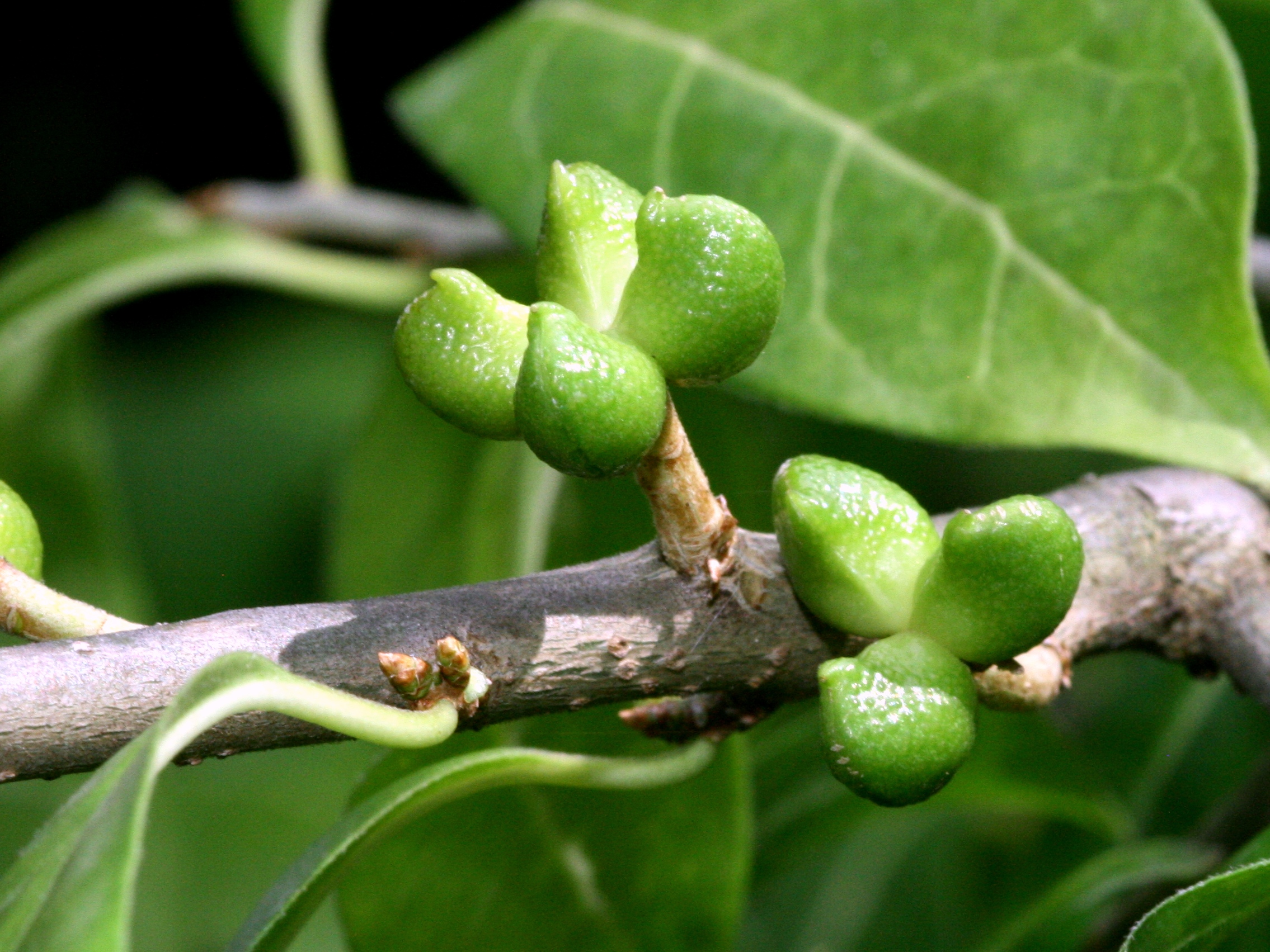 Fruits of Orixa japonica, Arboretum in Brno, Czech Republic